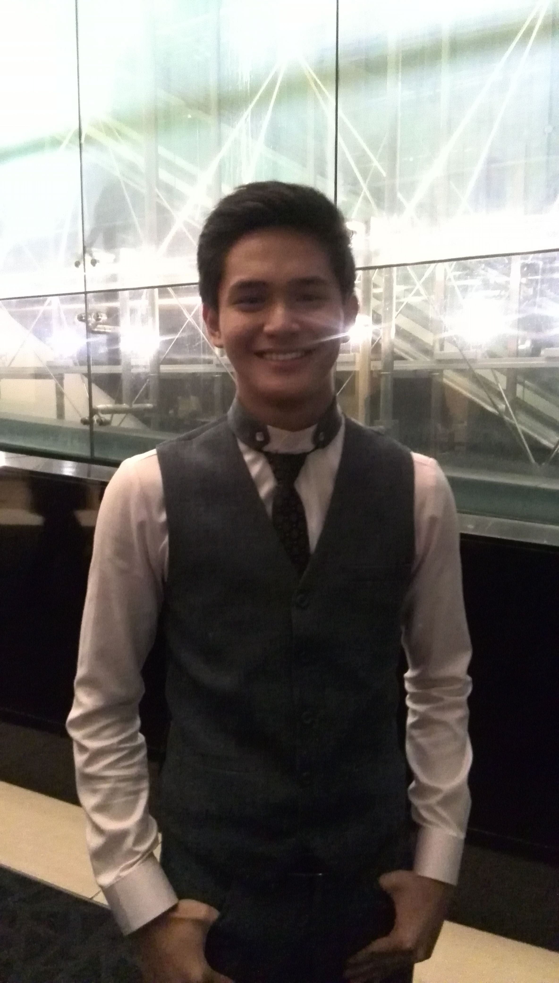 Filipino actor Ruru Madrid at TIFF2014